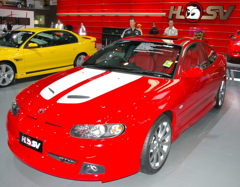 2006 HSV Coupé (Z Series) GTO LE coupe. Photographed at the 2006 Melbourne International Motor Show.